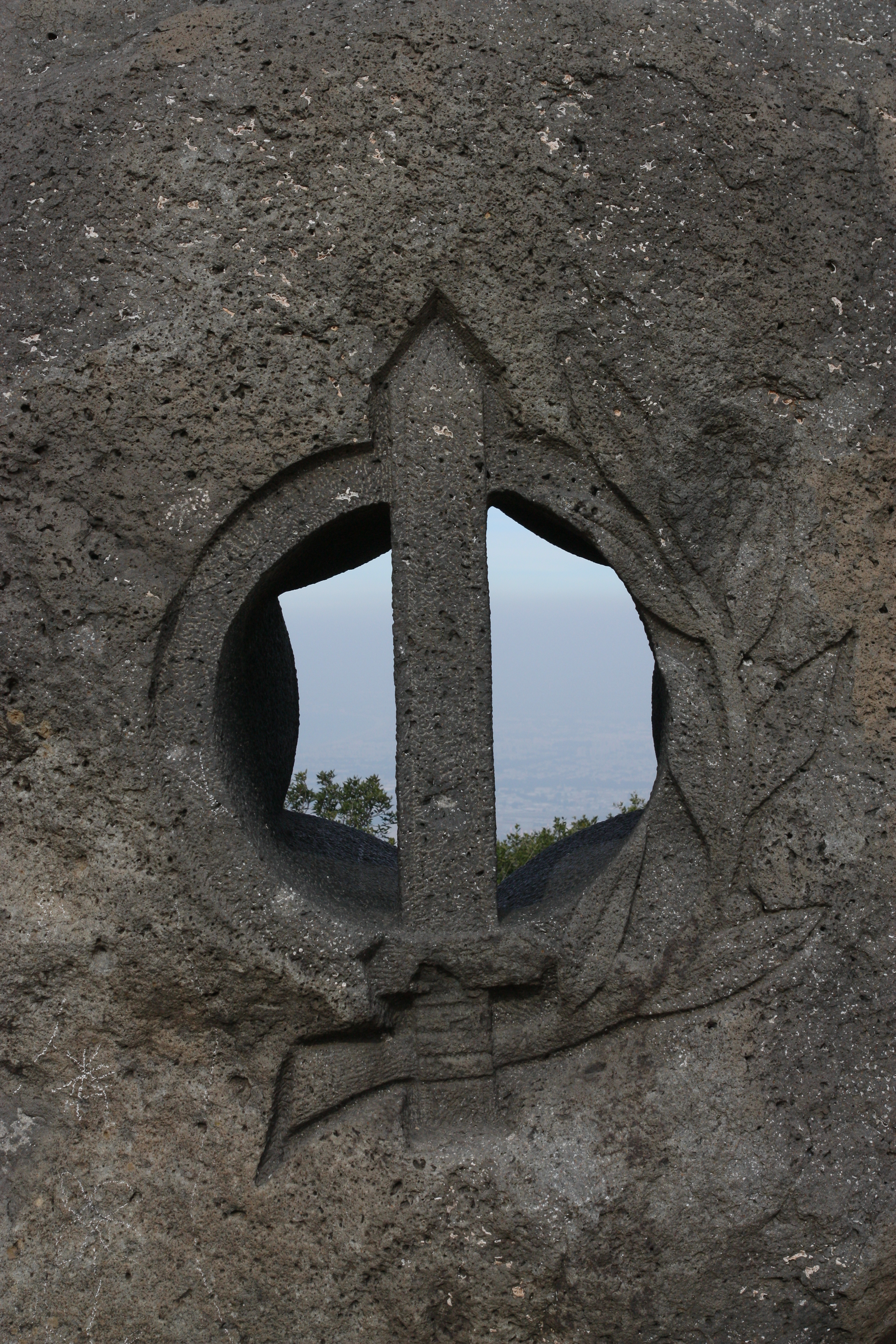 Mount Carmel